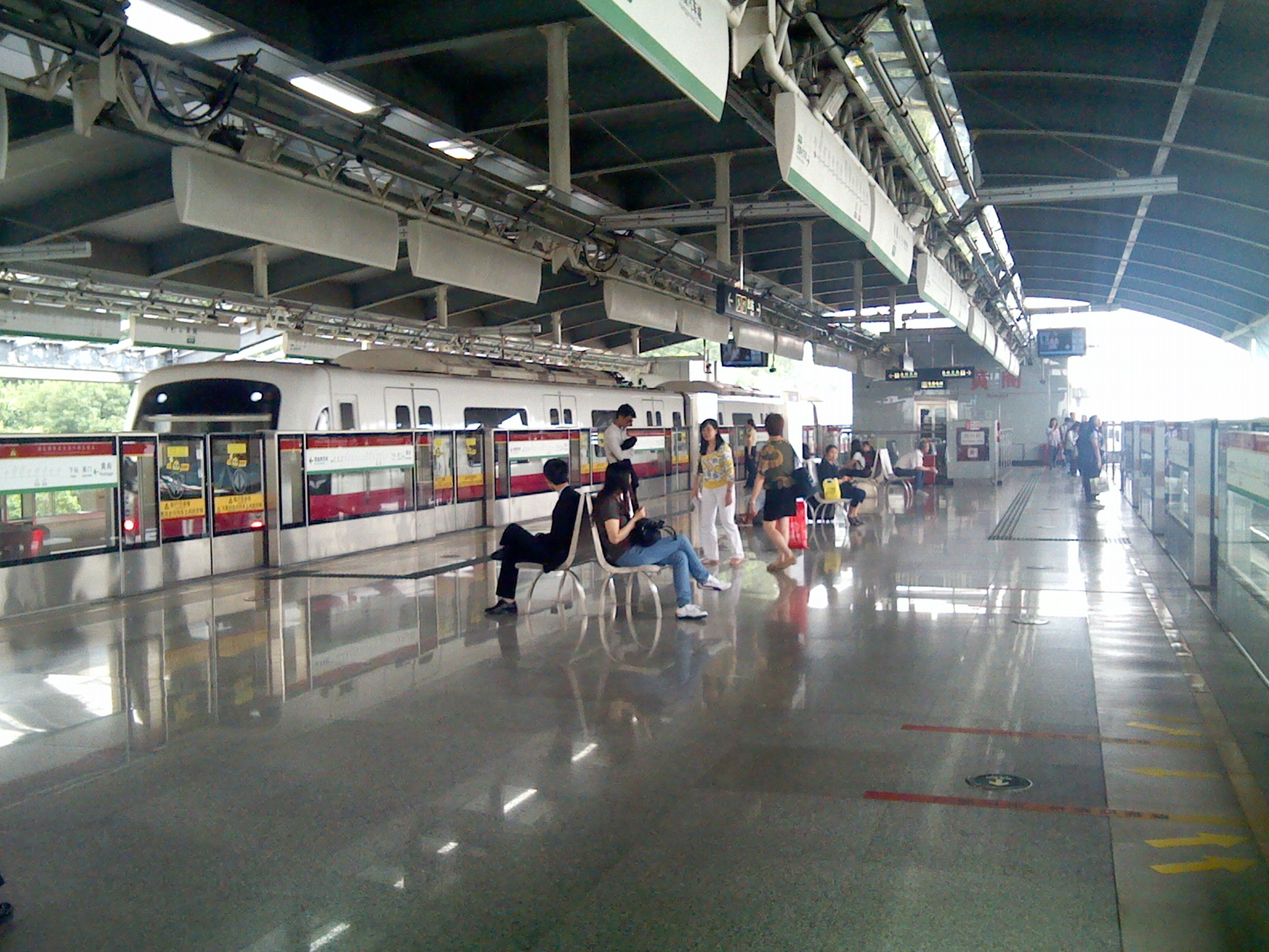 黄阁站车站月台